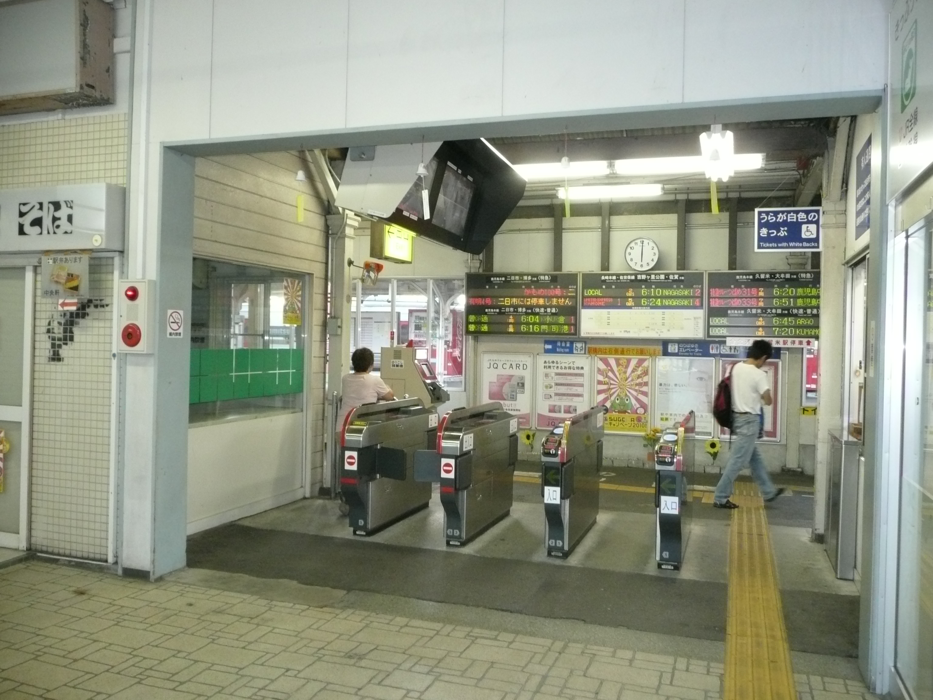 鳥栖駅の改札口